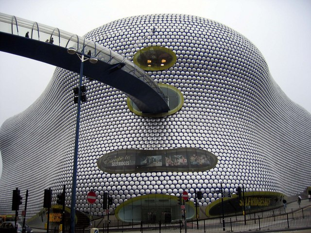 Selfridge store, Birmingham Bull Ring